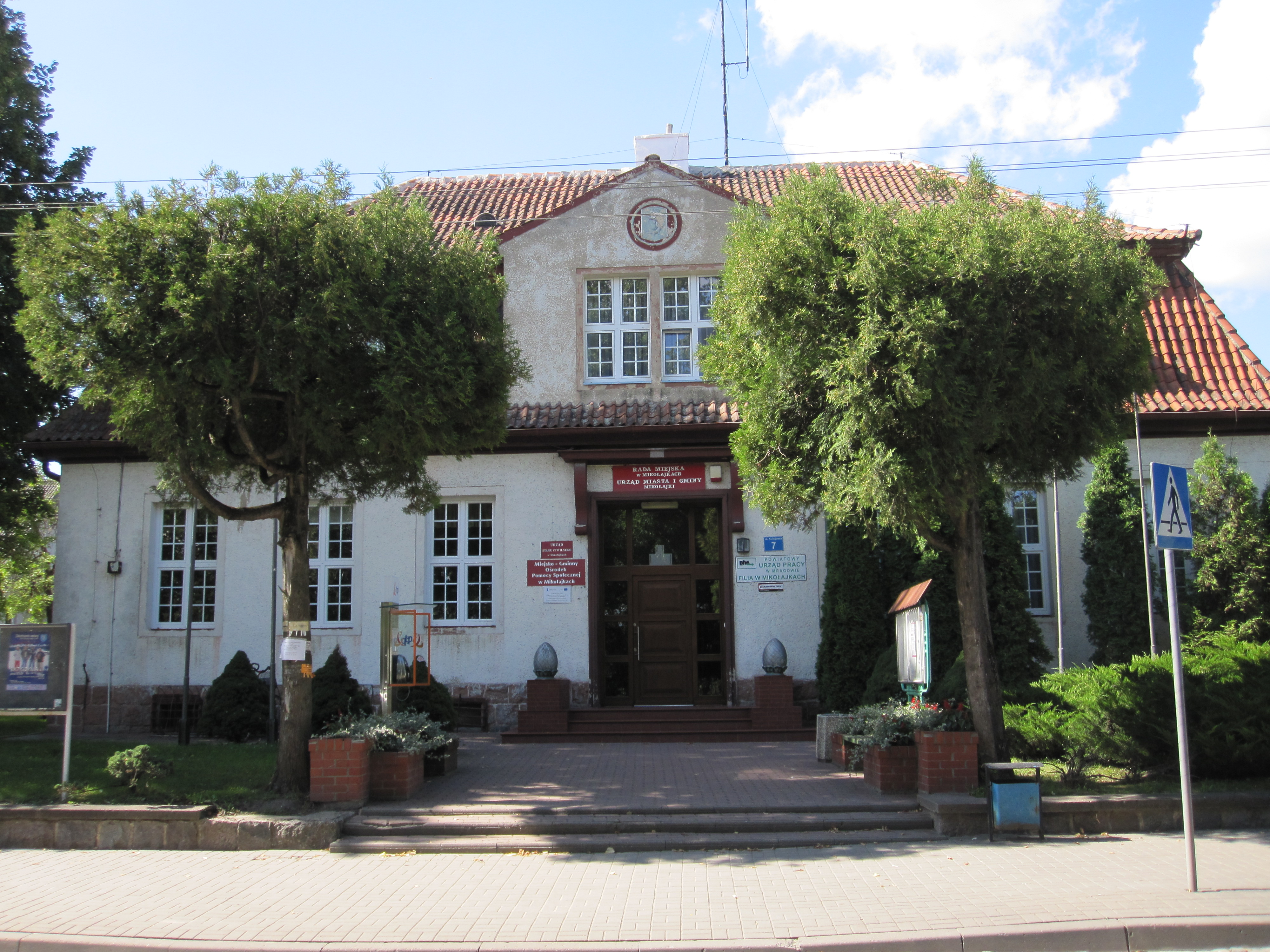 Building on 13 Kolejowa Street in Mikołajki. City Coucil